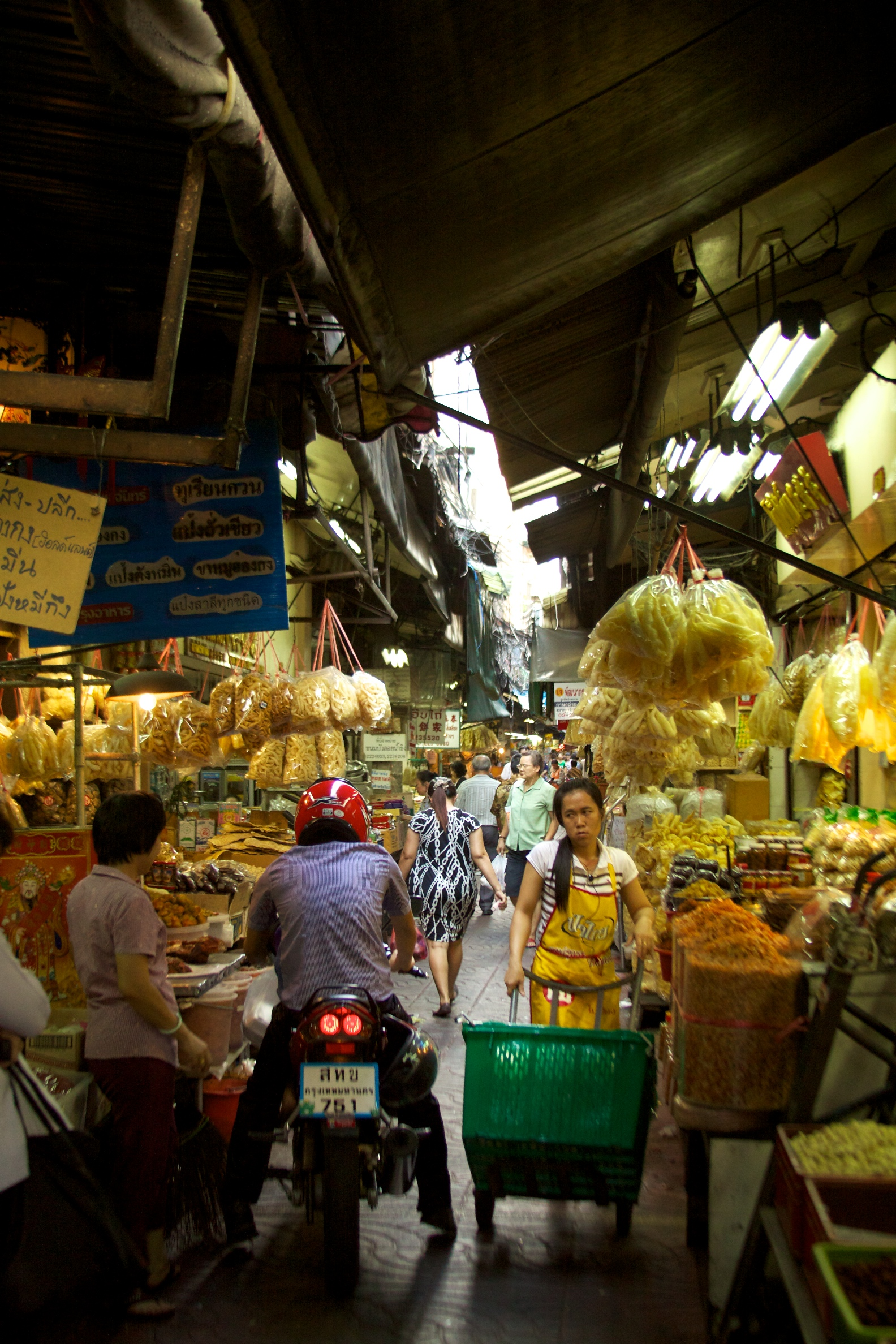 Chinatown's Talat Leng-Buai-la fresh market is overflowing with produce and food stalls